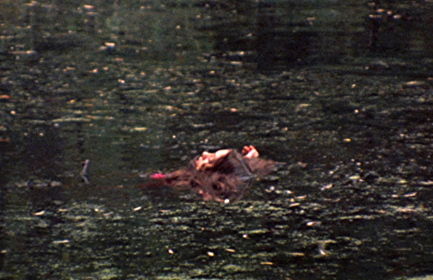 Last House on the Left trailer screenshot